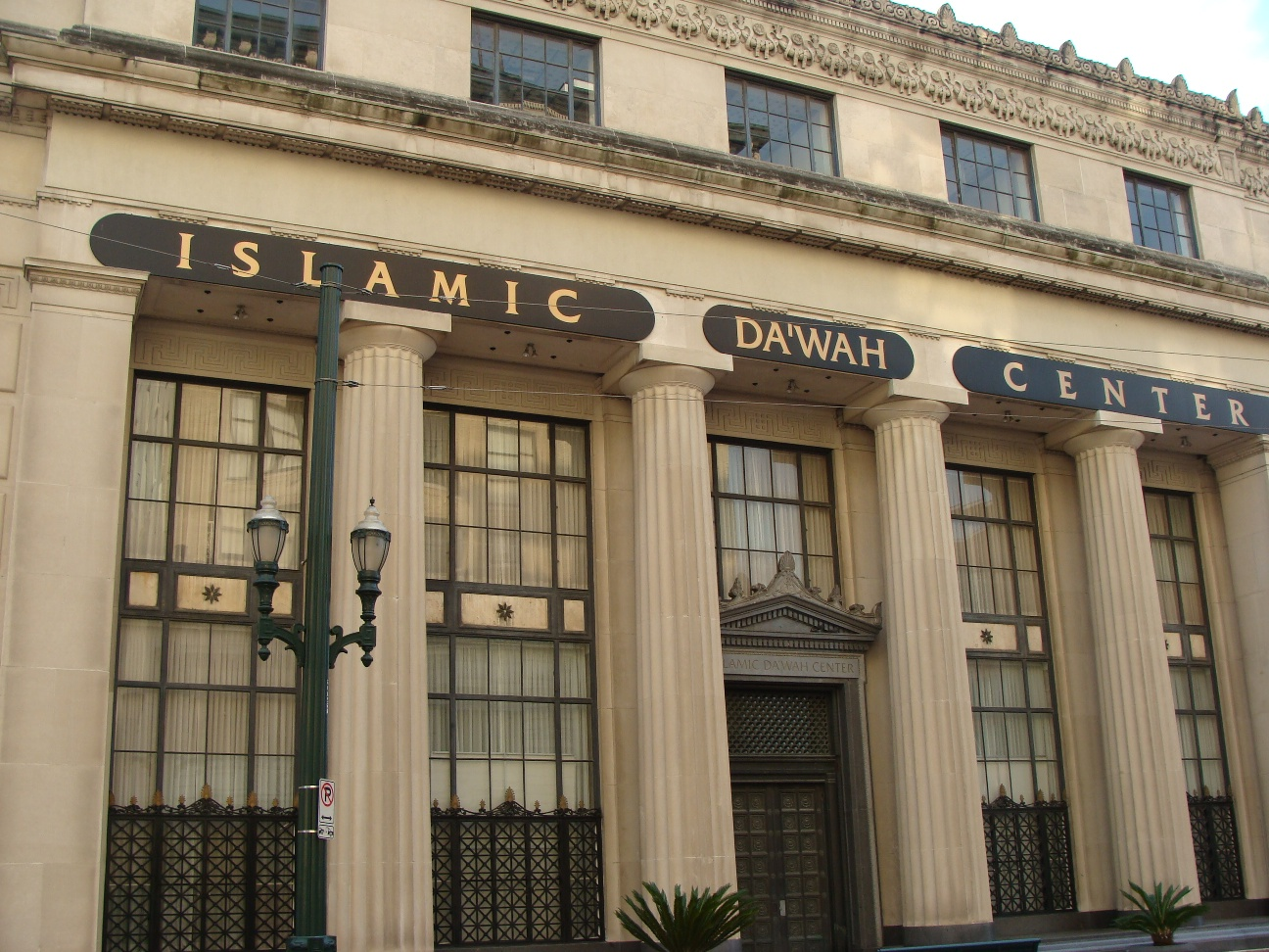 Islamic Da'wah Center, Houston, Texas. Formerly the Old Houston National Bank.